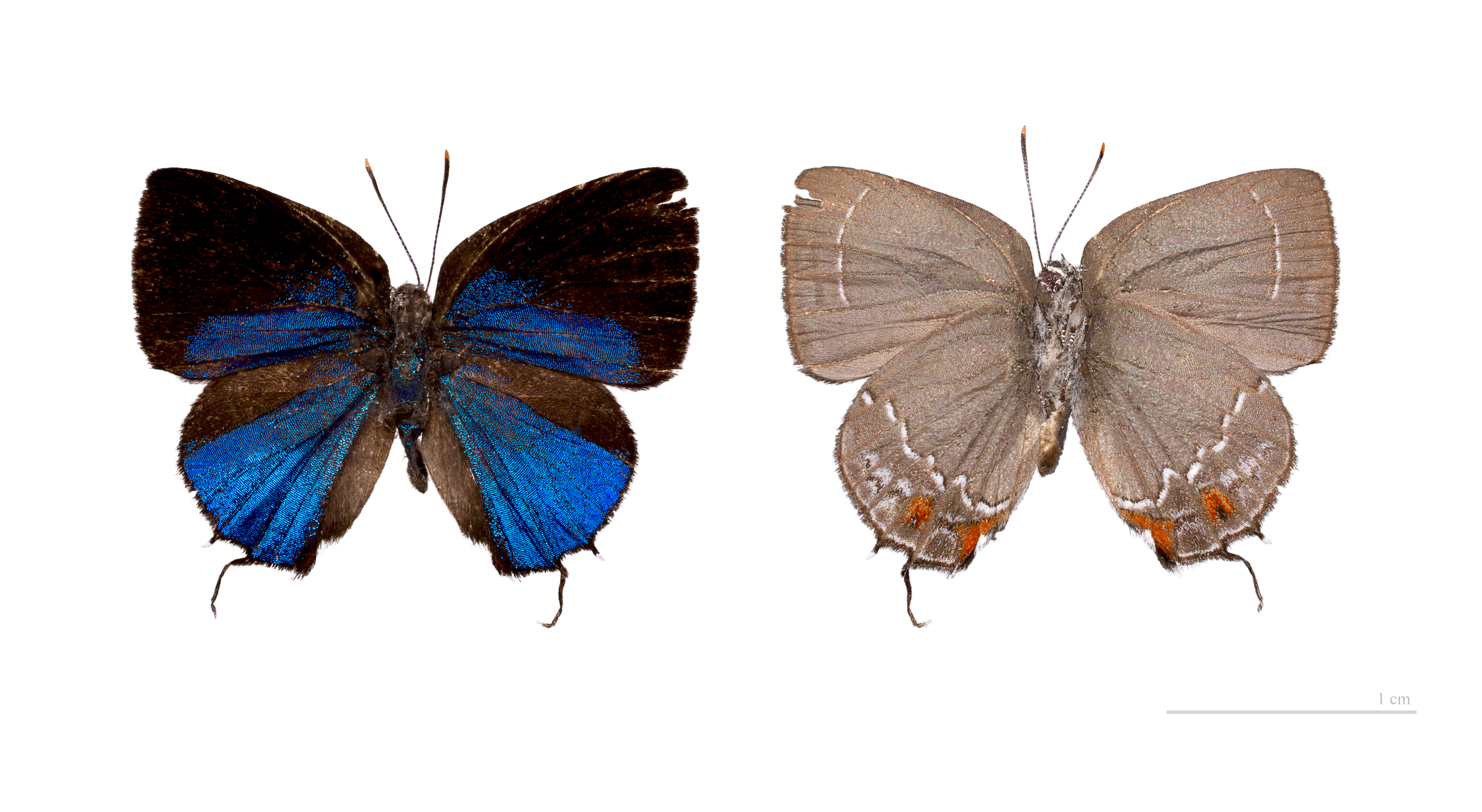 ♂ - Two views of same specimen Locality: Route de Kaw PK36, Cayenne, French Guianna.